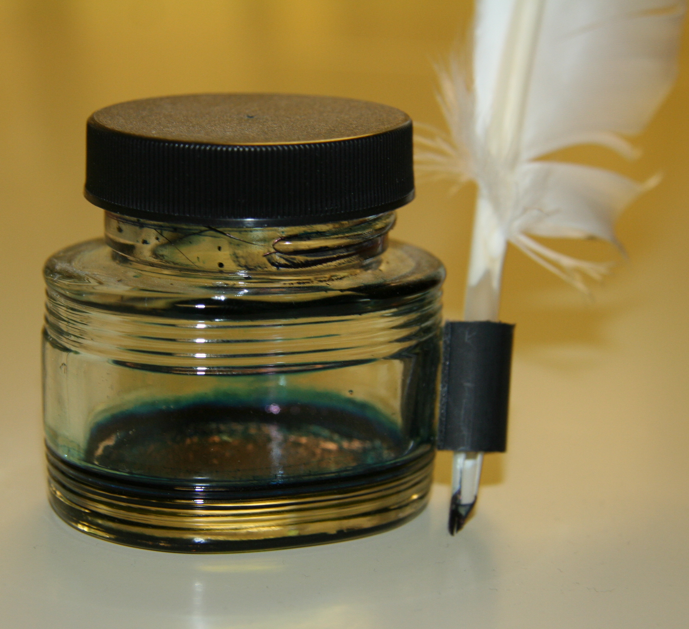 An empty ink bottle, pen holder, and a quill with an ink-stained nib